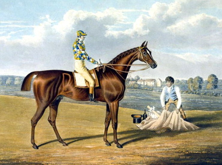 Engraving by Thomas Sutherland of a painting by John Frederick Herring (1795-1865) depicting the racehorse Barefoot. ca. 1833. Artist dead for 147 years.